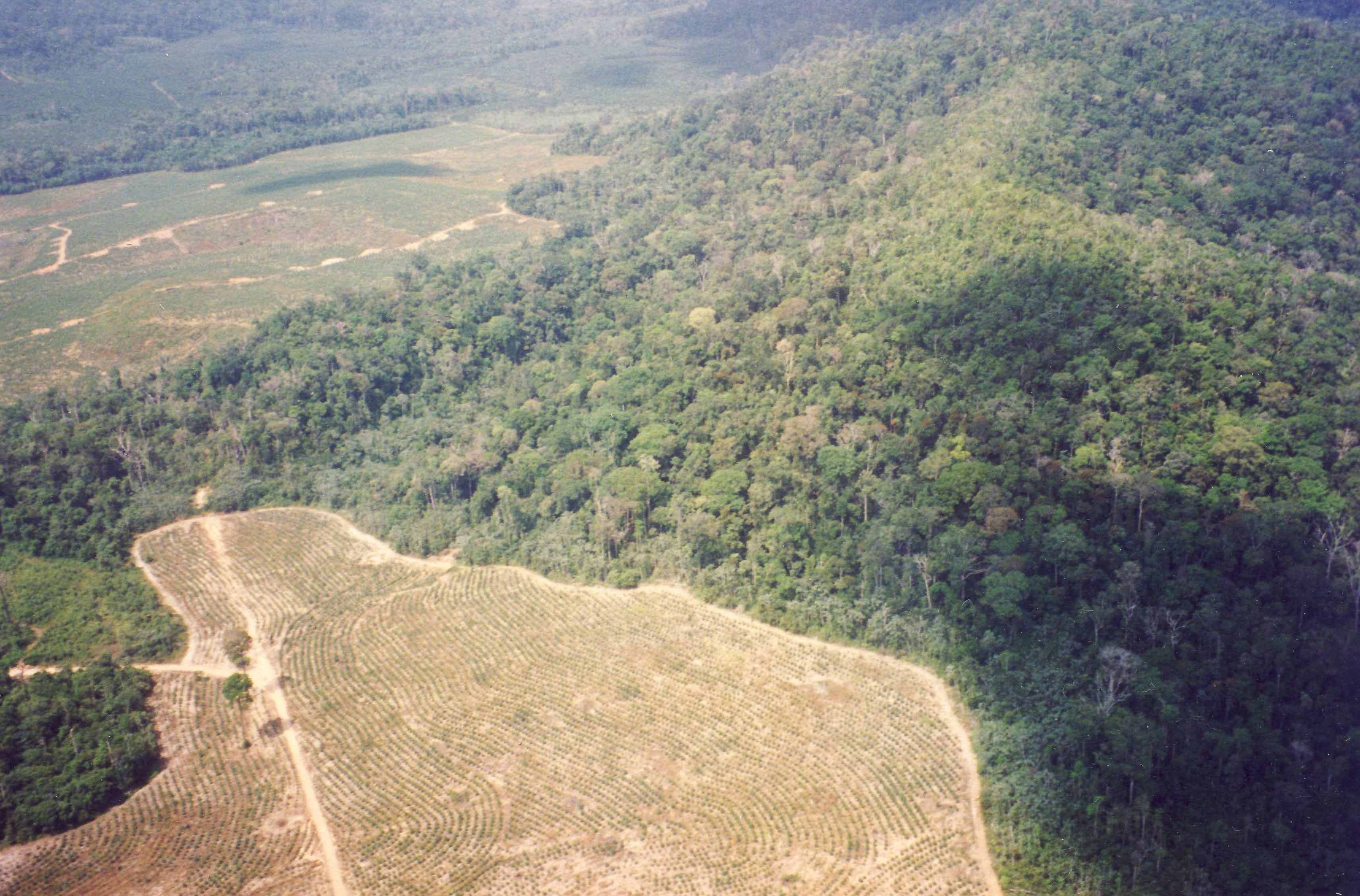 Plantation of Eucalyptus inside the Rain forest close to Montes Dourados - 1995